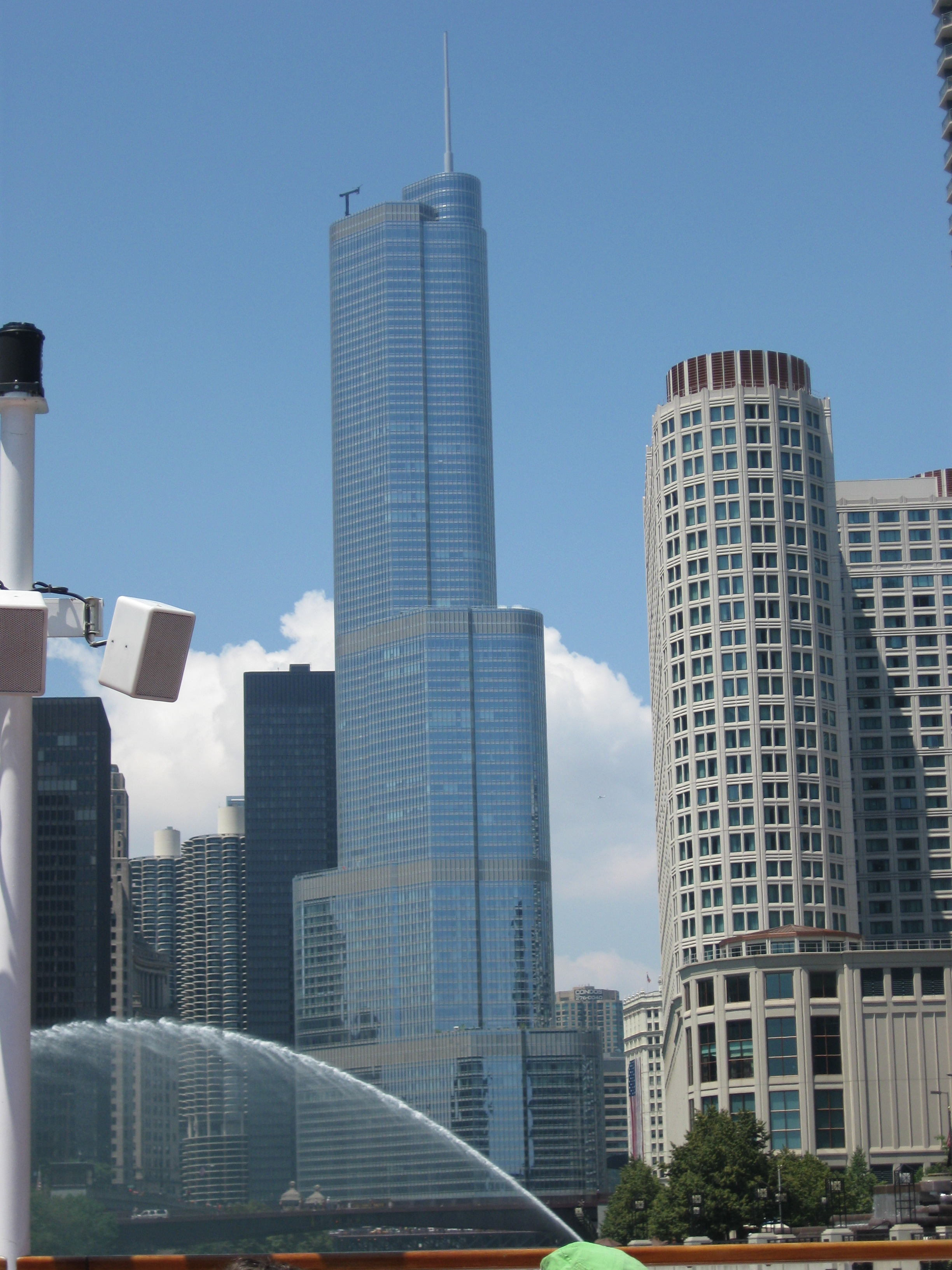 Trump International Hotel and Tower in Chicago as seen from the Chicago River.